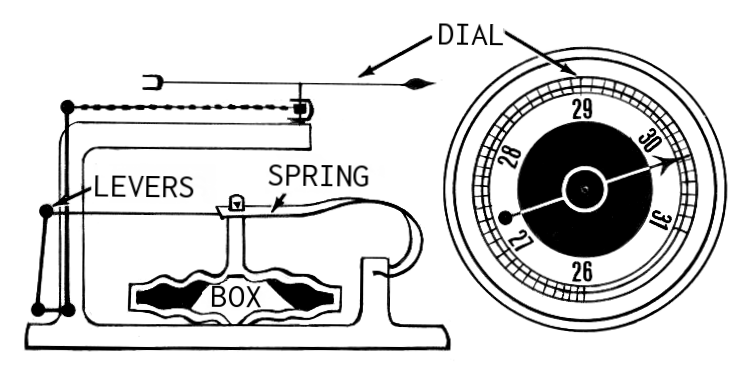 line art drawing of an aneroid barometer.